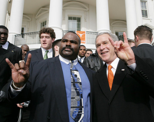 George W. Bush and Jeff Madden give the Hook 'em Horns at the White House with the 2005 Texas Longhorn football team White house photo.